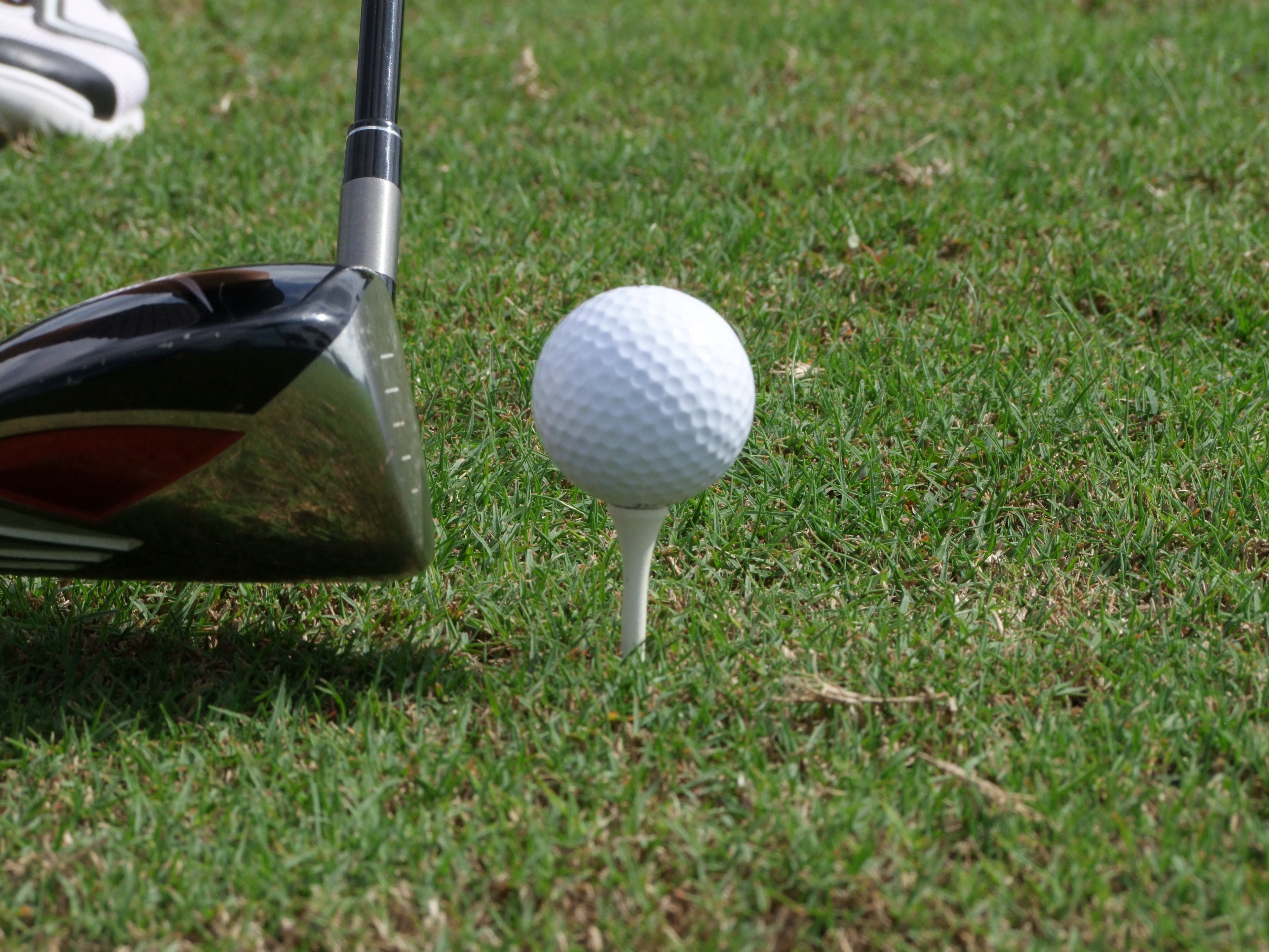 Golf ball on tee image.